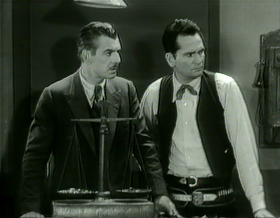 Lloyd Whitlock and Yakima Canutt in The Lucky Texan.